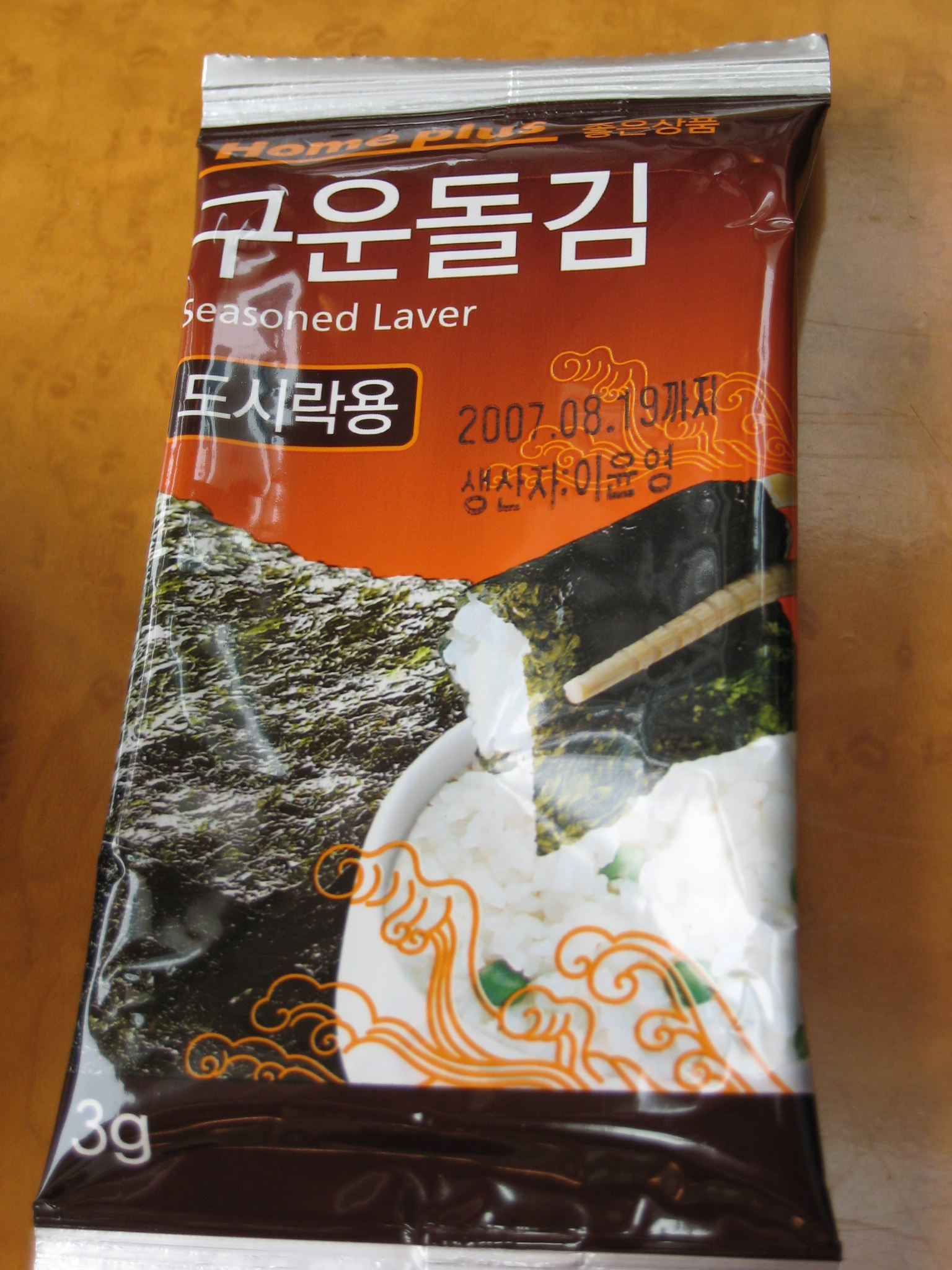 Korean seaweed-packed gim